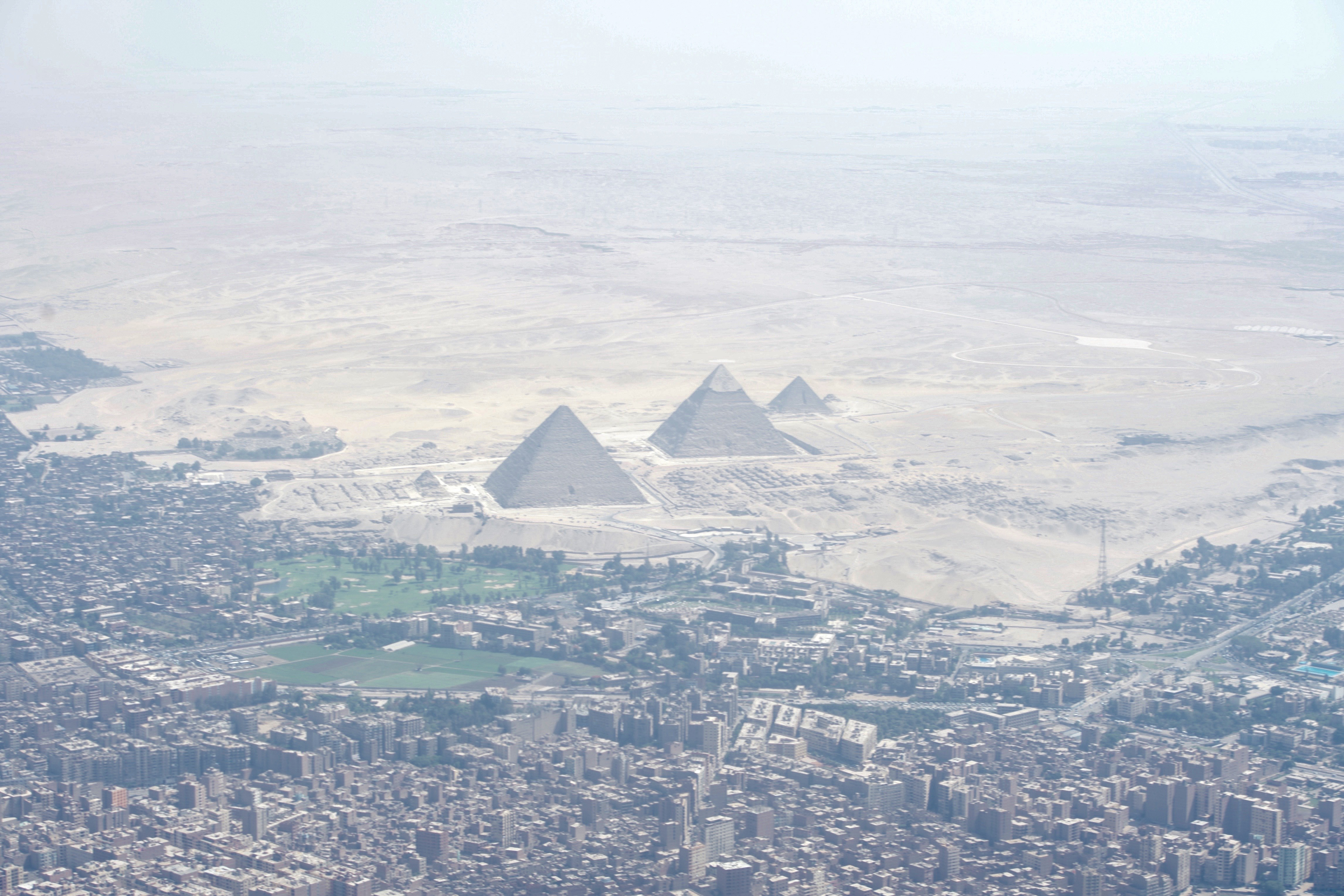 The Great Pyramid of Giza, far left, the oldest of the Seven Wonders of the Ancient World, as seen on May 18, 2016, from the airplane carrying U.S. Secretary of State John Kerry from Vienna, Austria, to Cairo, Egypt, for a bilateral meeting with Egyptian President Fattah al-Sisi. [State Department photo/ Public Domain]